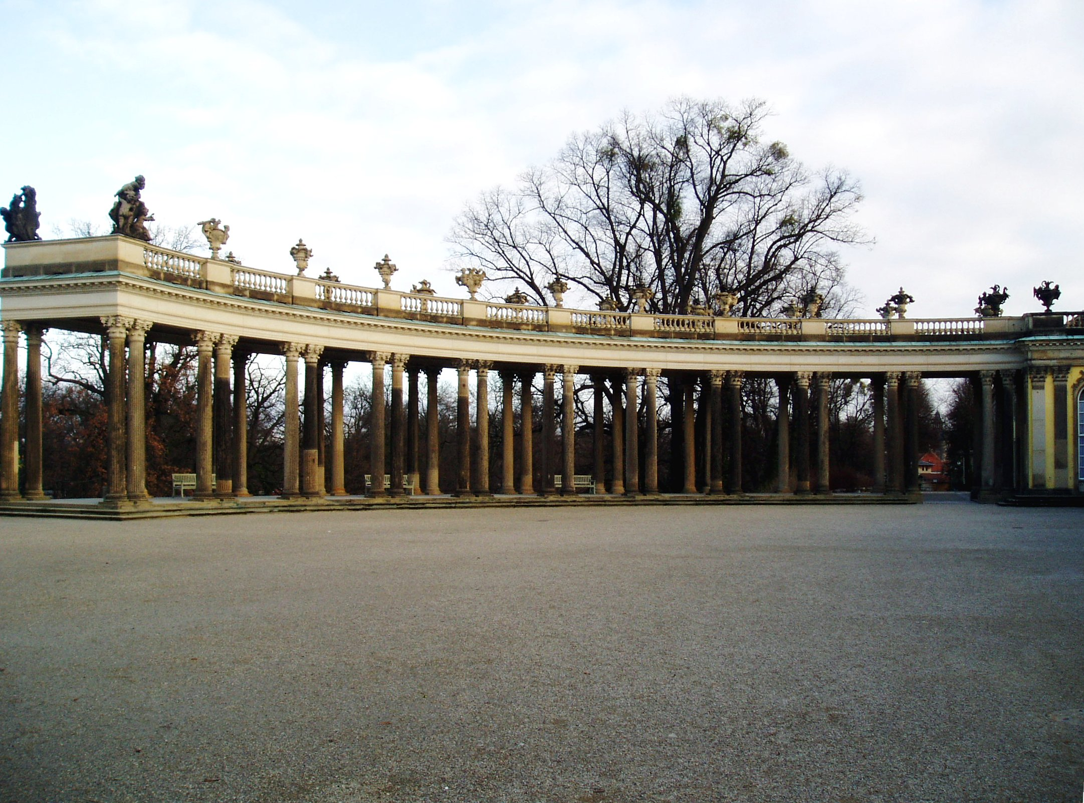 "Ehrenhofkolonnade" at Sanssouci, Potsdam, Germany